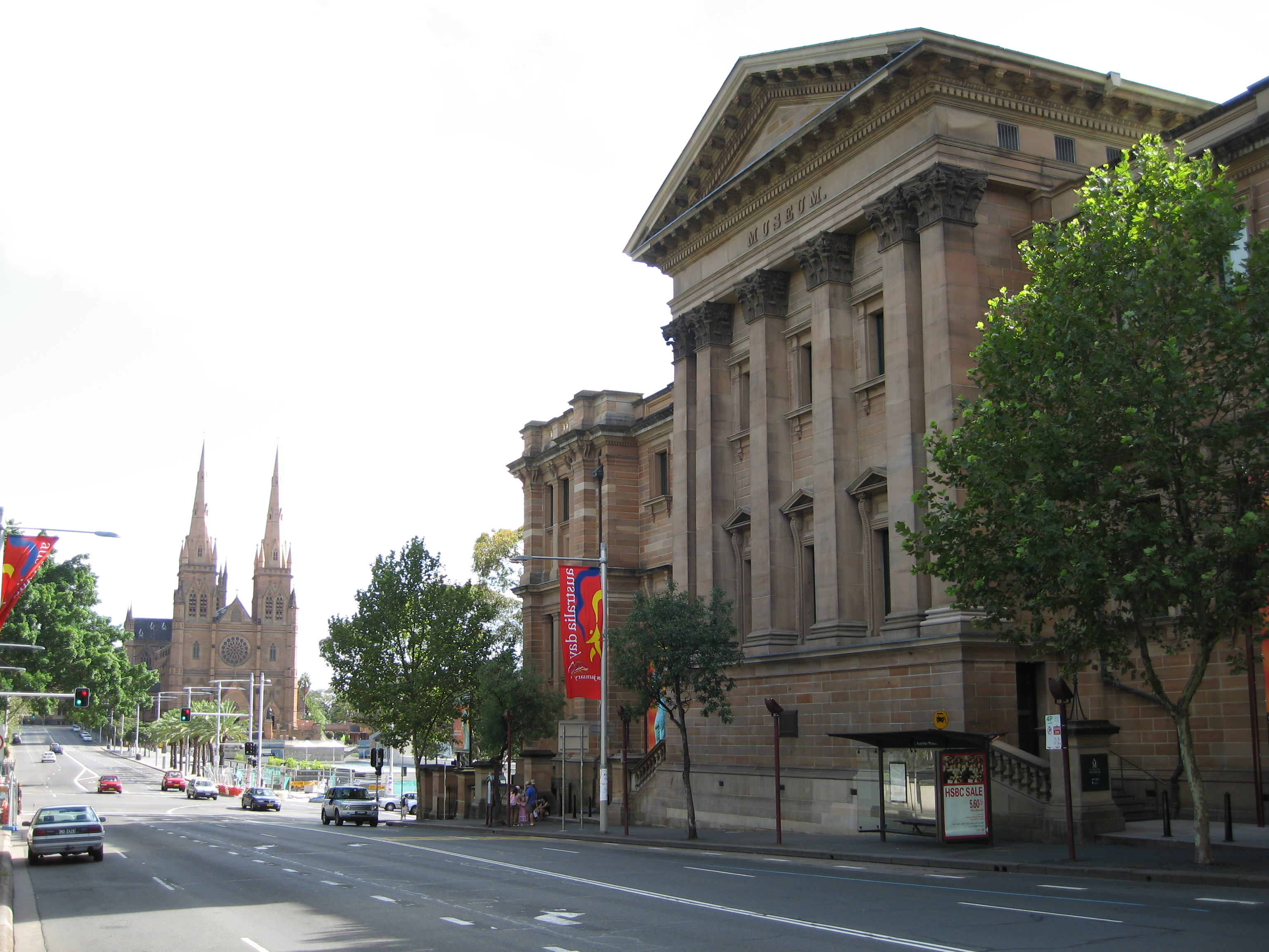 The Australian Museum, with St Mary's Cathedral in the background, Sydney, Australia.